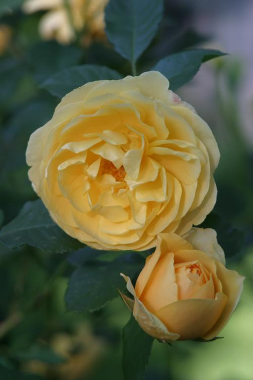 Rose 'Graham Thomas' (Ausmas 1983). This picture was taken by me (in my yard). Henryhartley 23:28, Oct 2, 2004 (UTC)